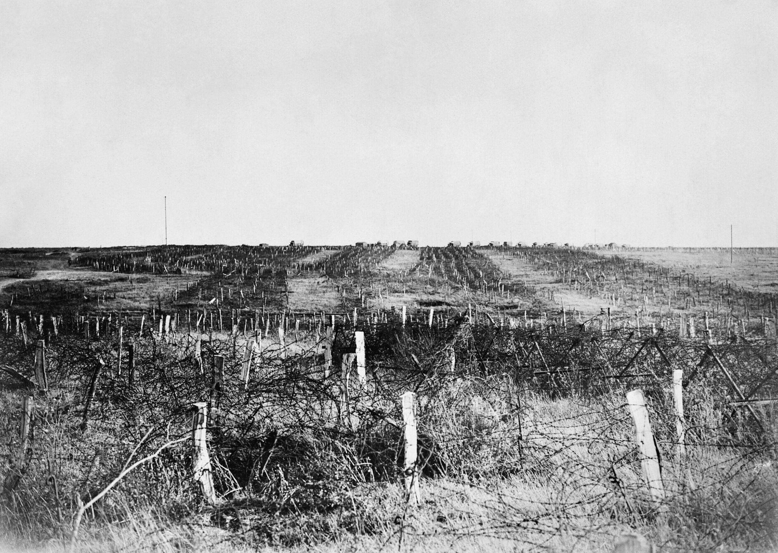 Photograph of German barbed wire defences at Queant in the Hindenburg Line.